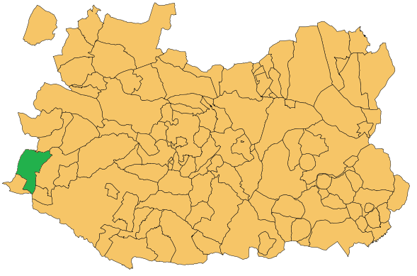 Chillón